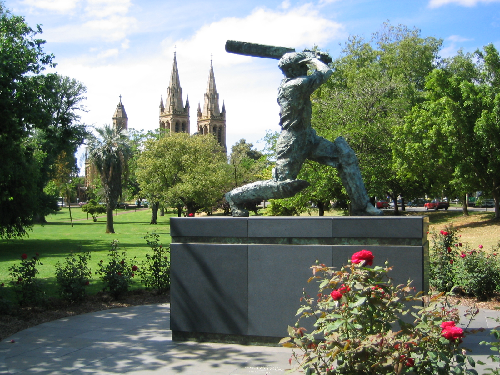 Statue of Sir Donald Bradman by Robert Hannaford in the Creswell Gardens outside the Adelaide Oval in Adelaide, South Australia.